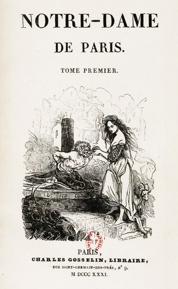 First edition of Victor Hugo Notre-Dame de Paris, Charles Gosselin publisher in Paris 1831, with Tony Johannot